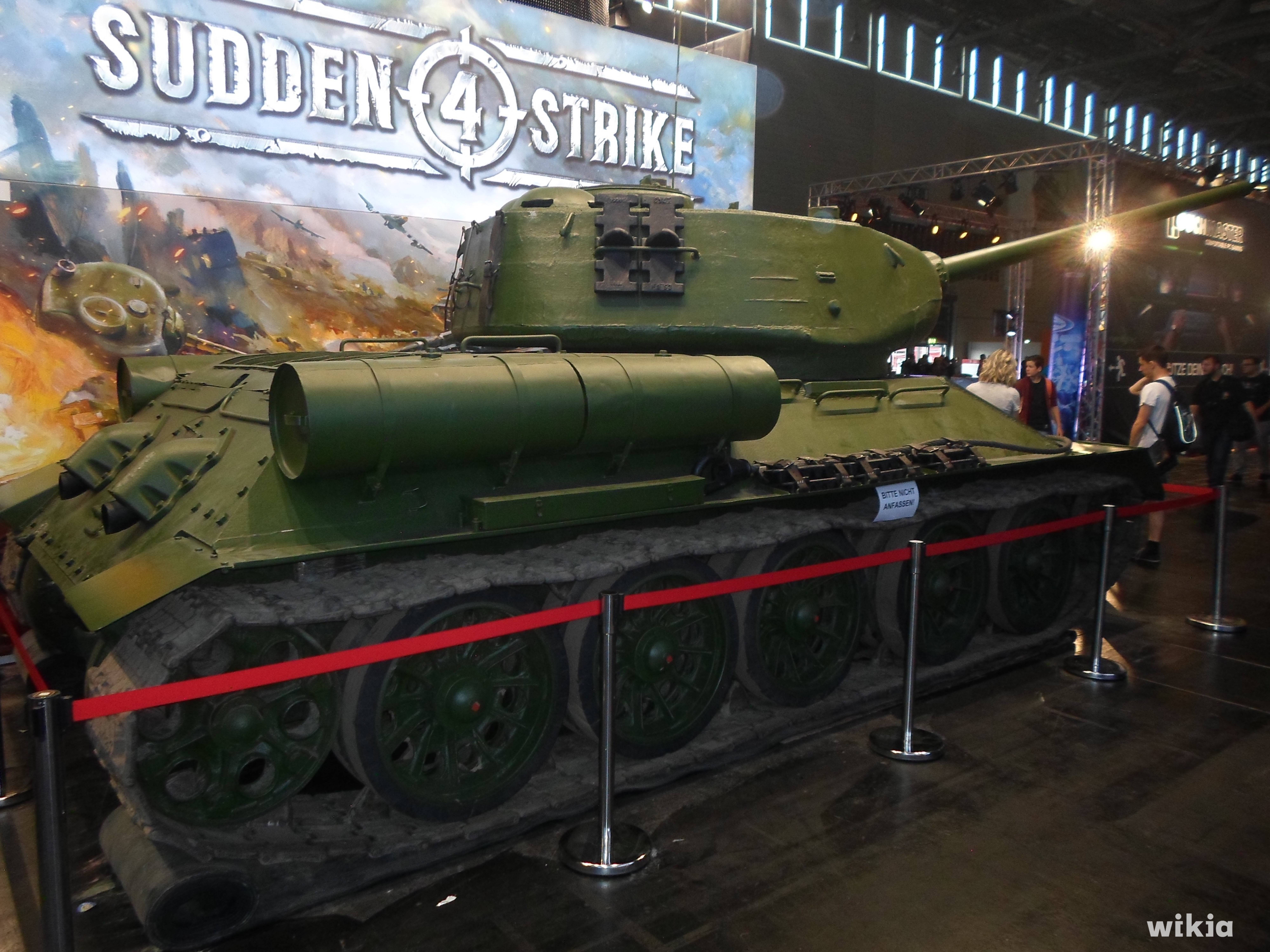 Gamescom 2016 impressions - Friday (open for all visitors)